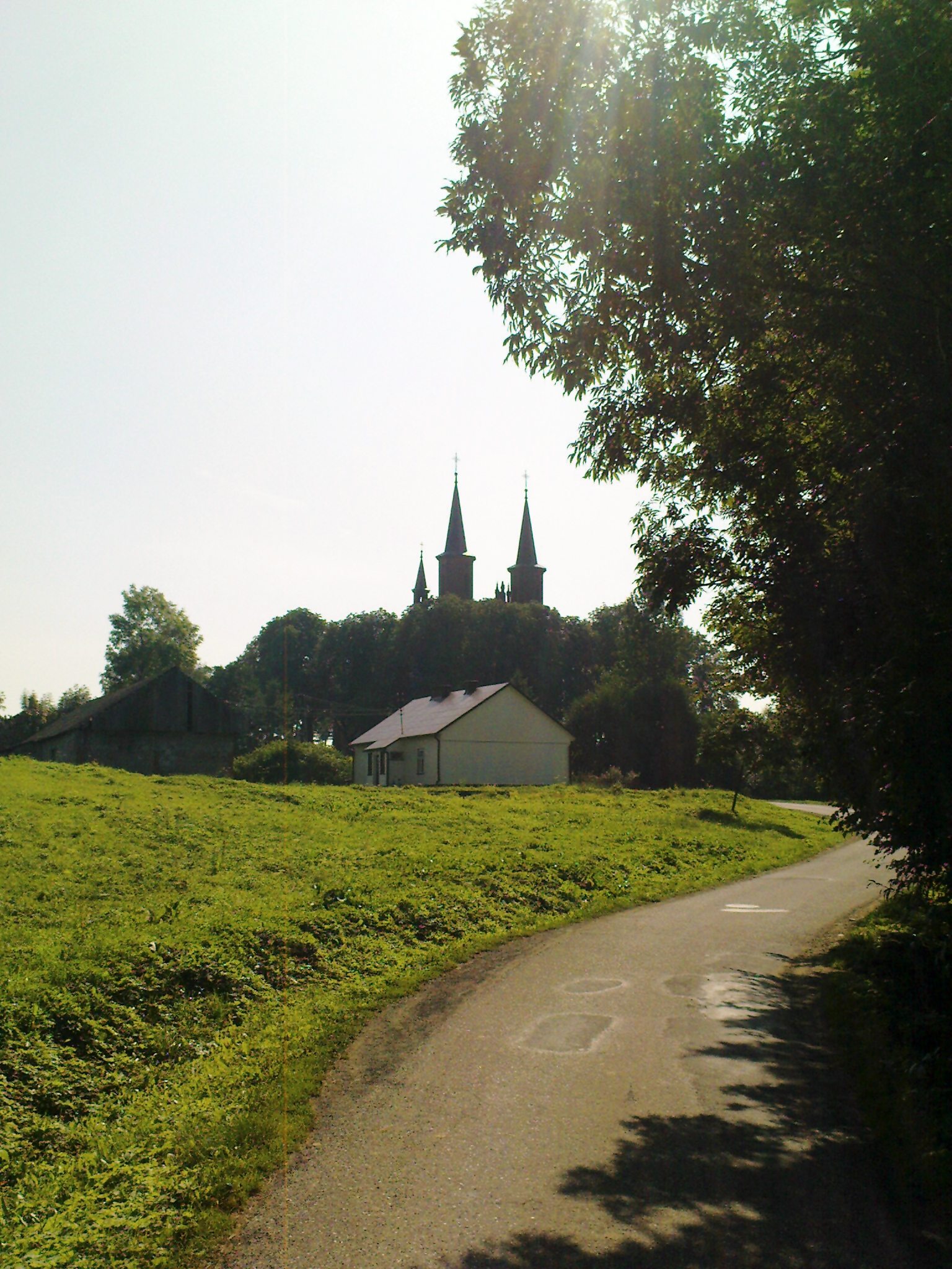 Parish Church of St. Martin the Bishop in Łużna